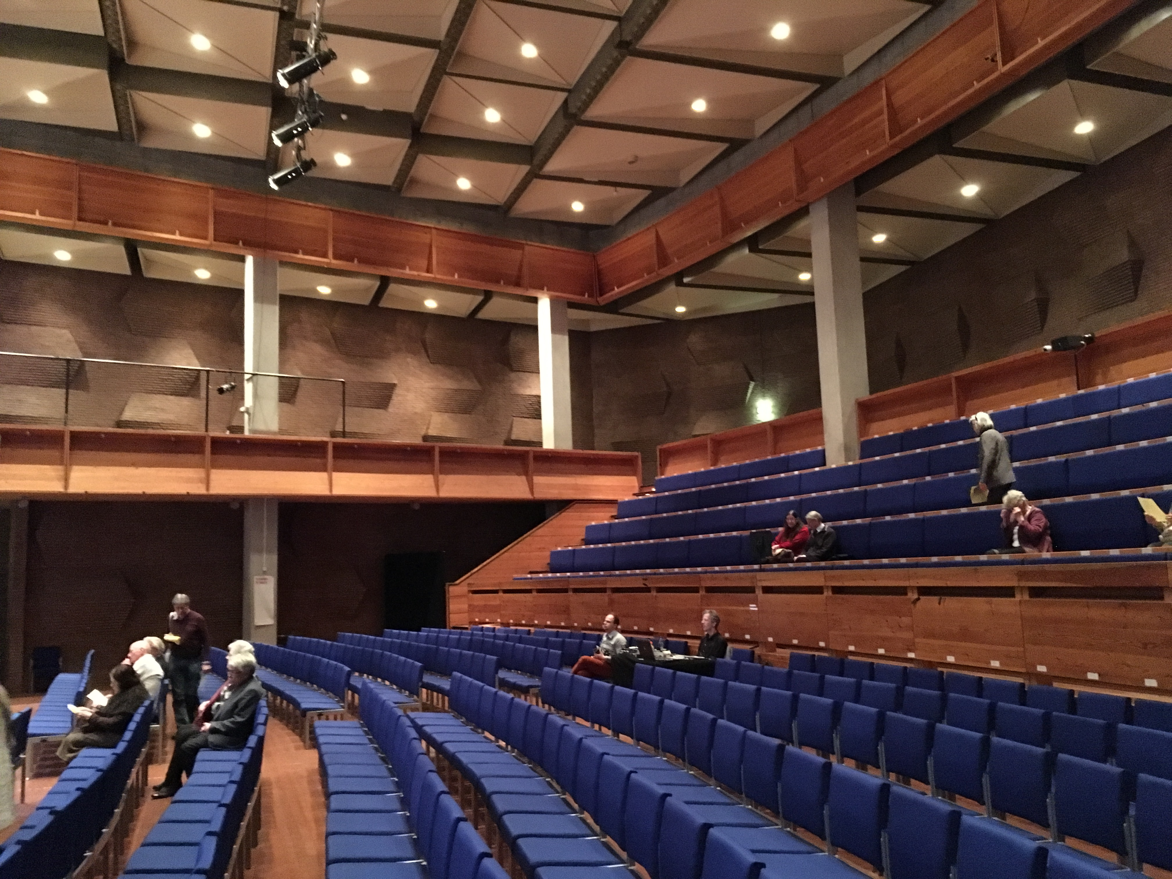 The building of the Royal Conservatory of The Hague, at Juliana van Stolberglaan 1 in The Hague